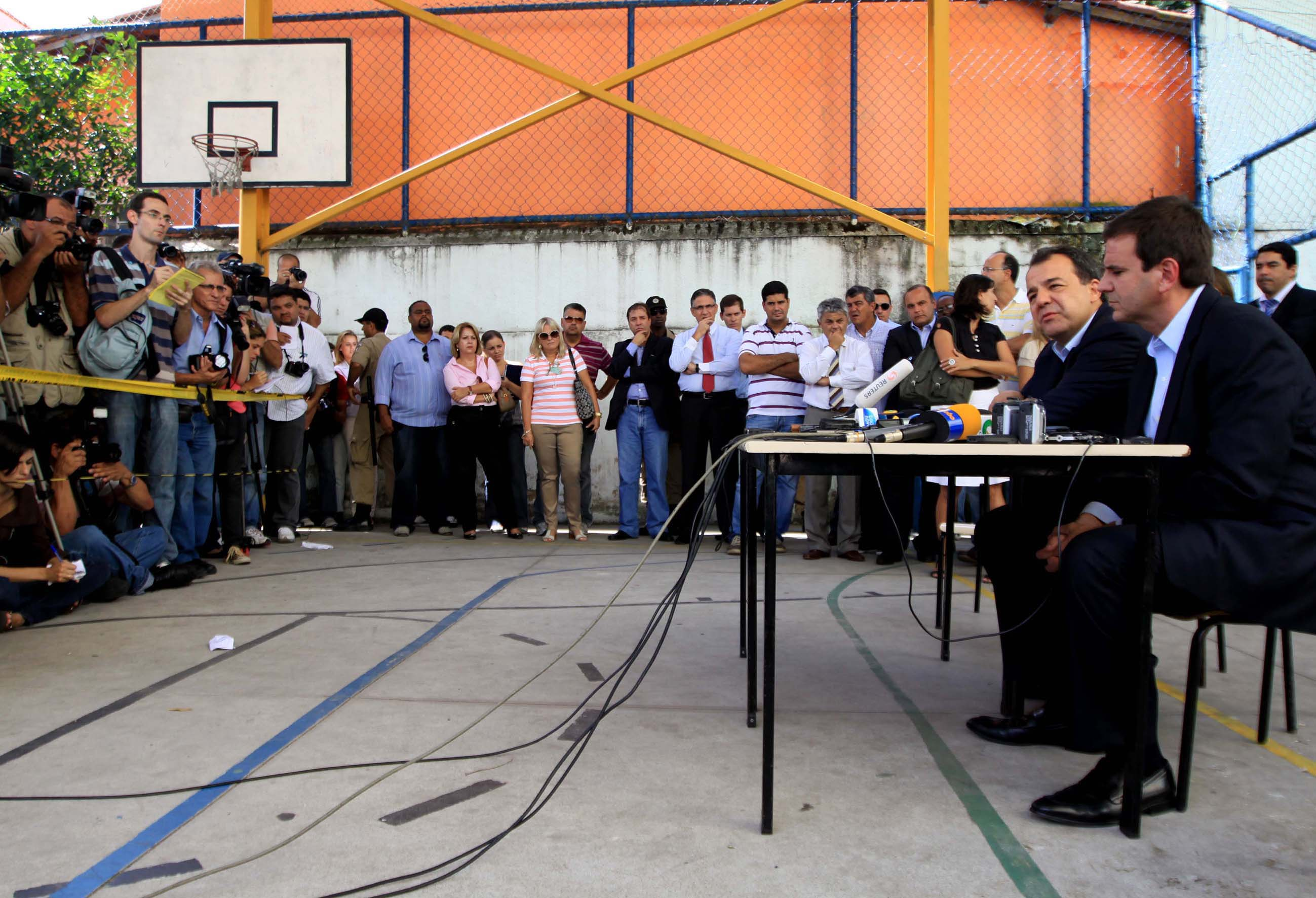 The governor of Rio de Janeiro State, Sérgio Cabral Filho, and the mayor of Rio de Janeiro, Eduardo Paes, speak about the incident at the Municipal School Tasso da Silveira, in Realengo